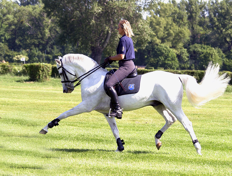 Akhal-teke stallion Merv, 1992 (Melekush-Servi) line Ak Belek